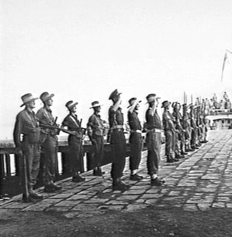 Troops from the Australian 33rd Infantry Brigade at Ambon, 22 September 1945